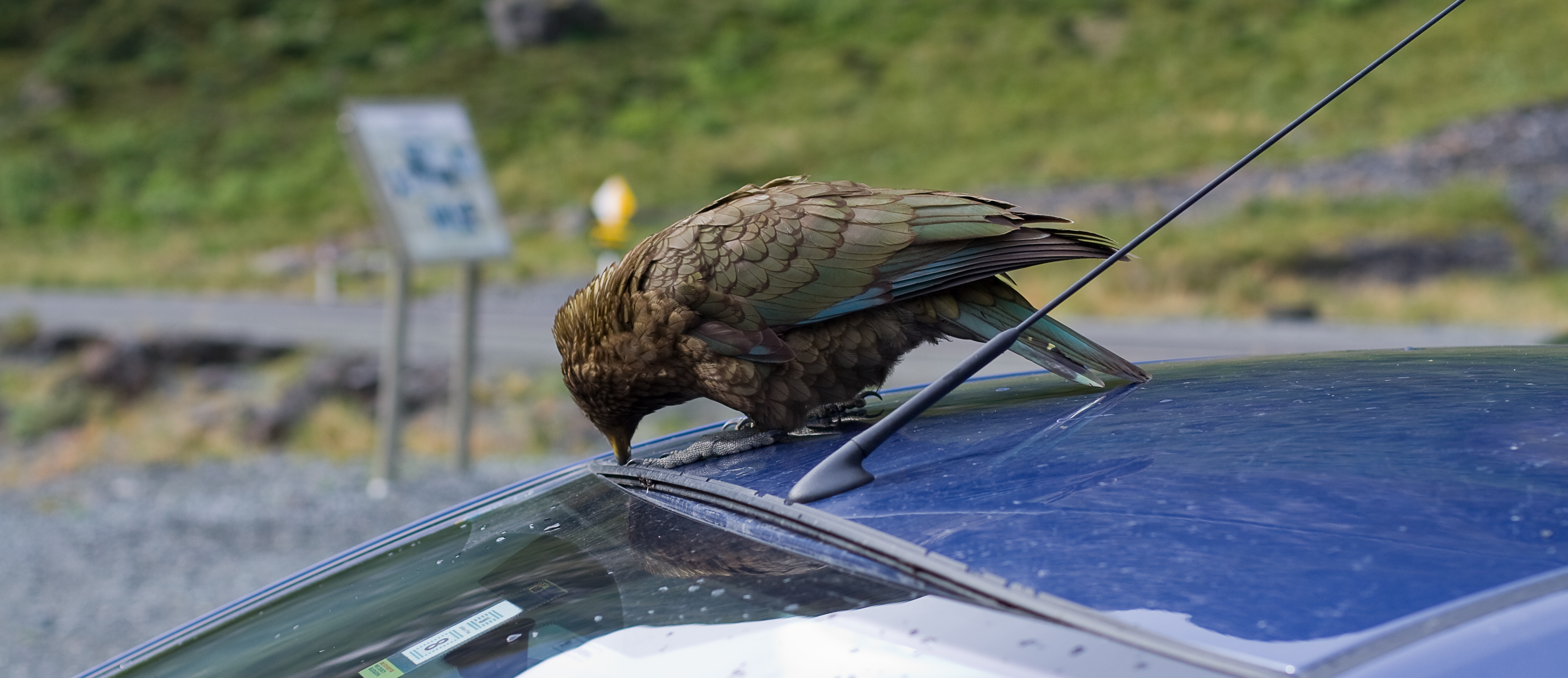 A Kea, Nestor notabilis pulling the trim from around the windscreen of a car in New Zealand.